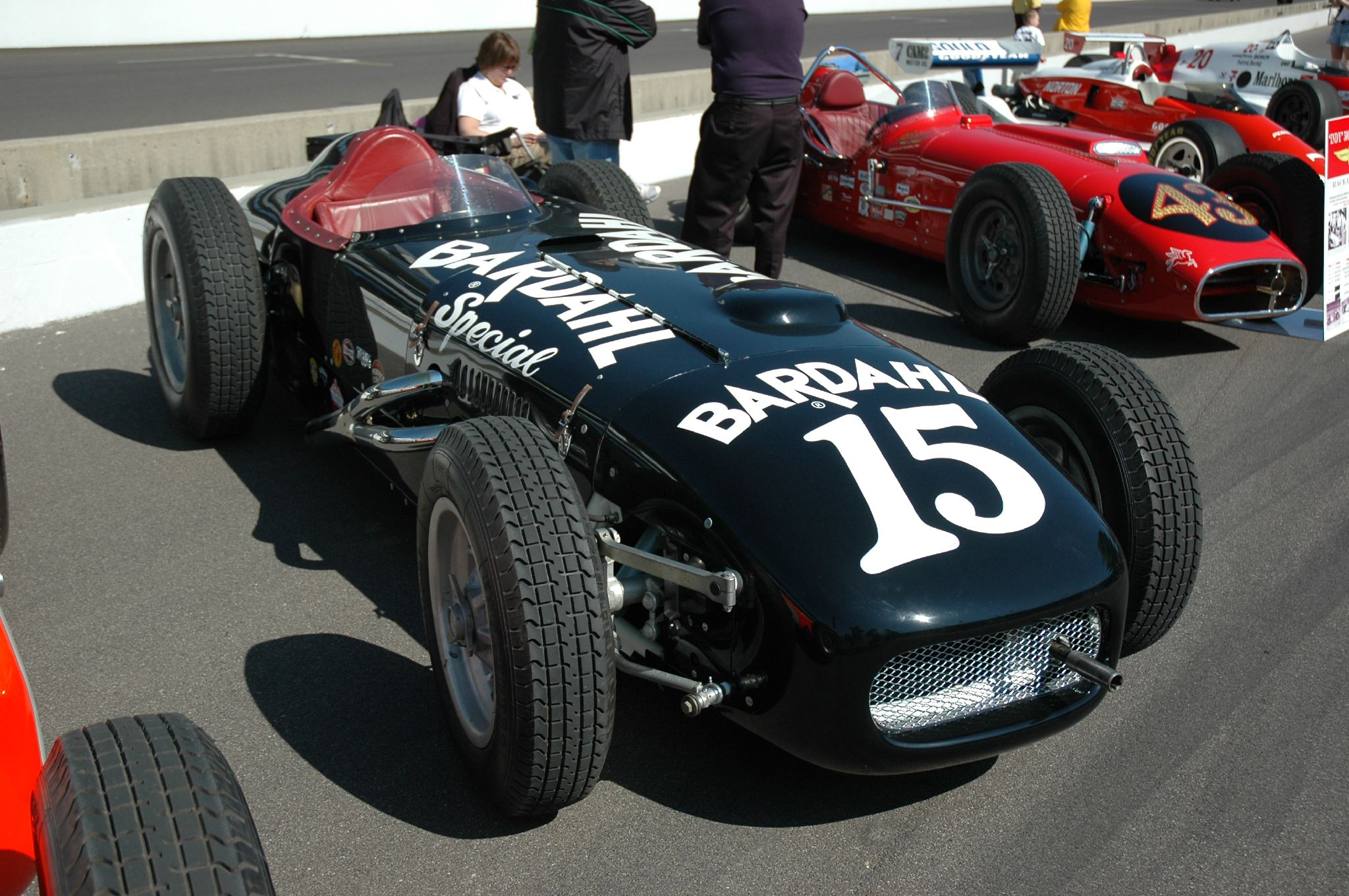 The Kurtis 500B Bardahl Special driven by Jimmy Davies to in the w:1955 Indianapolis 500 to a 3rd place finish.